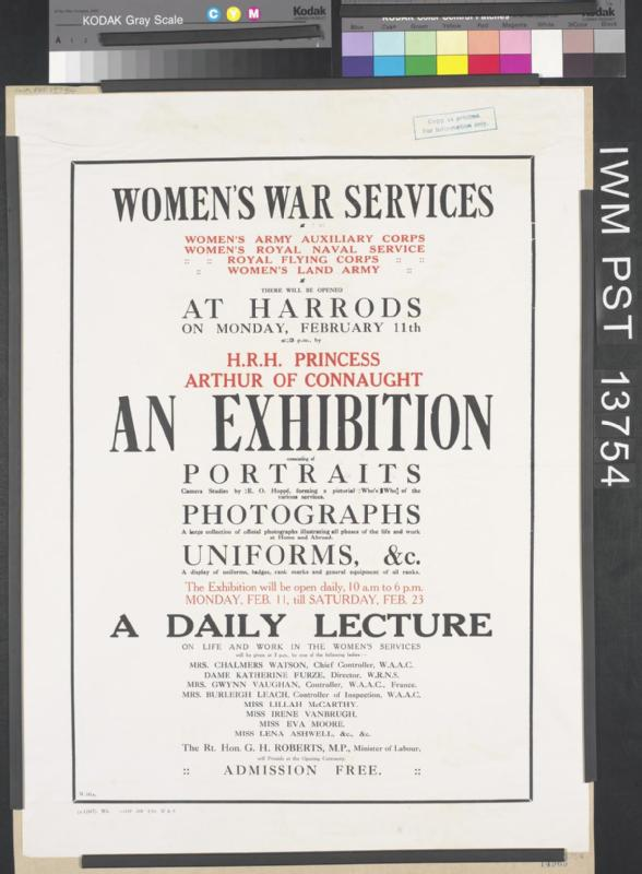 Women's War Services - An Exhibition whole: the title and text occupy the whole, in black and in red, set against a white background and held within a black border. image: text only. text: Copy as printed. For information only [ink stamp] WOMEN'S WAR SERVICES WOMEN'S ARMY AUXILIARY CORPS WOMEN'S ROYAL NAVAL SERVICE ROYAL FLYING CORPS WOMEN'S LAND ARMY THERE WILL BE OPENED AT HARRODS ON MONDAY, FEBRUARY 11th at 3 p.m. by H.R.H. PRINCESS ARTHUR OF CONNAUGHT AN EXHIBITION consisting of PORTRAITS Camera Studies by E. O. Hoppé, forming a pictorial Who's Who of the various services. PHOTOGRAPHS A large collection of official photographs illustrating all phases of the life and work at Home and Abroad. UNIFORMS, etc. A display of uniforms, badges, rank marks and general equipment of all ranks. The Exhibition will be open daily, 10 a.m. to 6 p.m. MONDAY, FEB. 11, till SATURDAY, FEB. 23 A DAILY LECTURE ON LIFE AND WORK IN THE WOMEN'S SERVICES will be given at 3 p.m., by one of the following ladies:- MRS. CHALMERS WATSON, Chief Controller, W.A.A.C. DAME KATHERINE FURZE, Director, W.R.N.S. MRS. GWYNN VAUGHAN, Controller, W.A.A.C., France. MRS. BURLEIGH LEACH, Controller of Inspection, W.A.A.C. MISS LILLAH McCARTHY. MISS IRENE VANBRUGH. MISS EVA MOORE. MISS LENA ASHWELL, etc., etc. The Rt. Hon. G. H. ROBERTS, M.P., Minister of Labour, will Preside at the Opening Ceremony. ADMISSION FREE. M. 101A. (B 11917) Wt. - 149 500 2/18 H and S